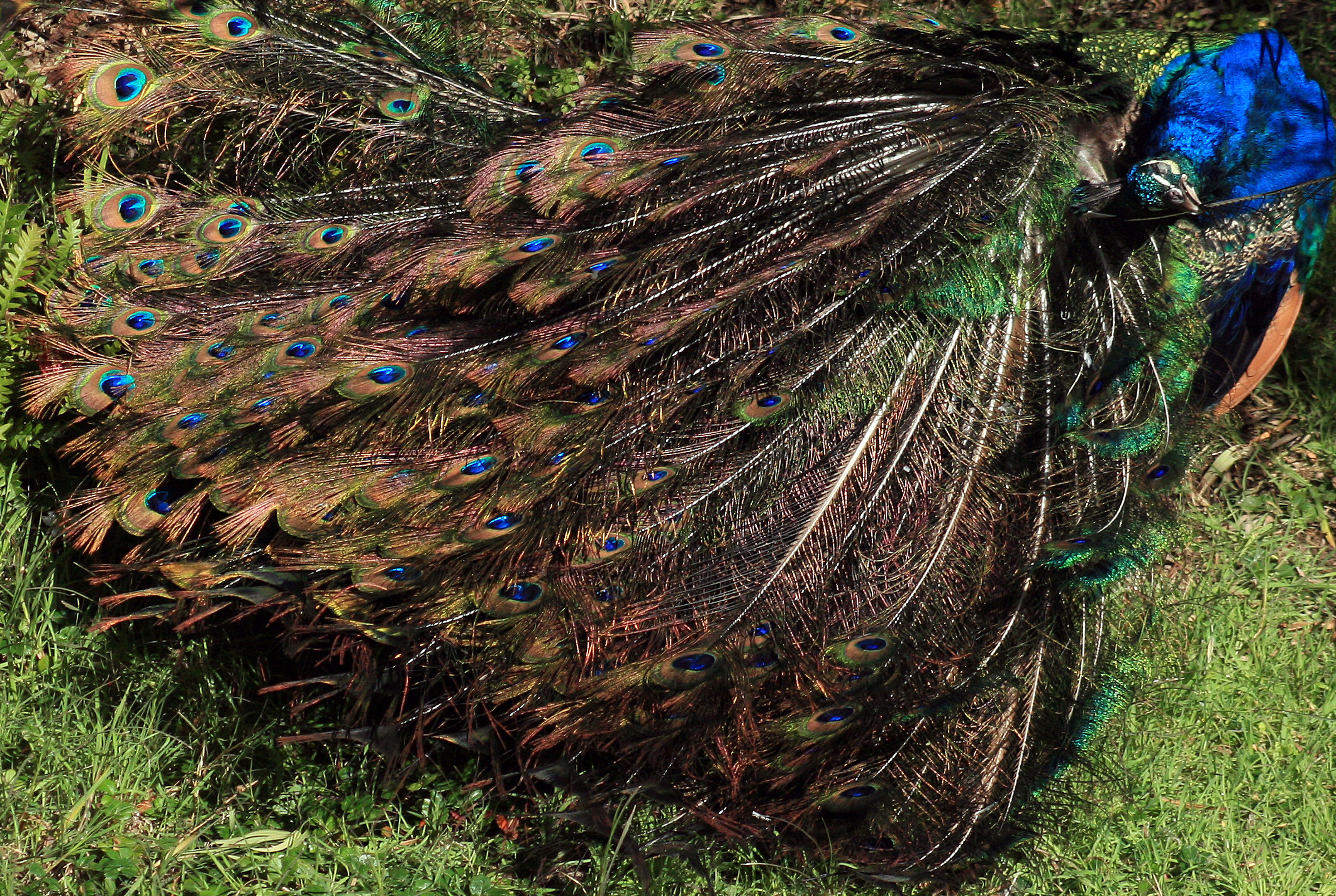 Pavo cristatus (male) in San Francisco Zoo cleaning his tail